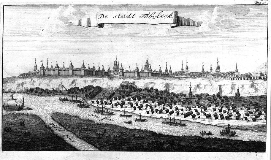 Three years travels from Moscow over-land to China : thro' Great Ustiga, Siriania, Permia, Sibiria, Daour, Great Tartary, etc. to Peking ; containing an exact and particular description of the extent and limits of those countries, and the customs of the barbarous inhabitants; with reference to their religion, government, marriages, daily imployments, habits, habitations, diet death, funerals ... to which is annex'd an accurat description of China, done originally by a chinese author